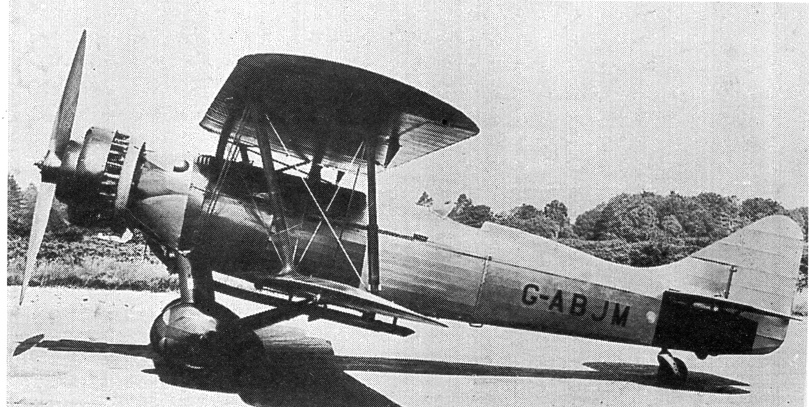 The sole Avro 627 Mailplane, August 1931 in standard form